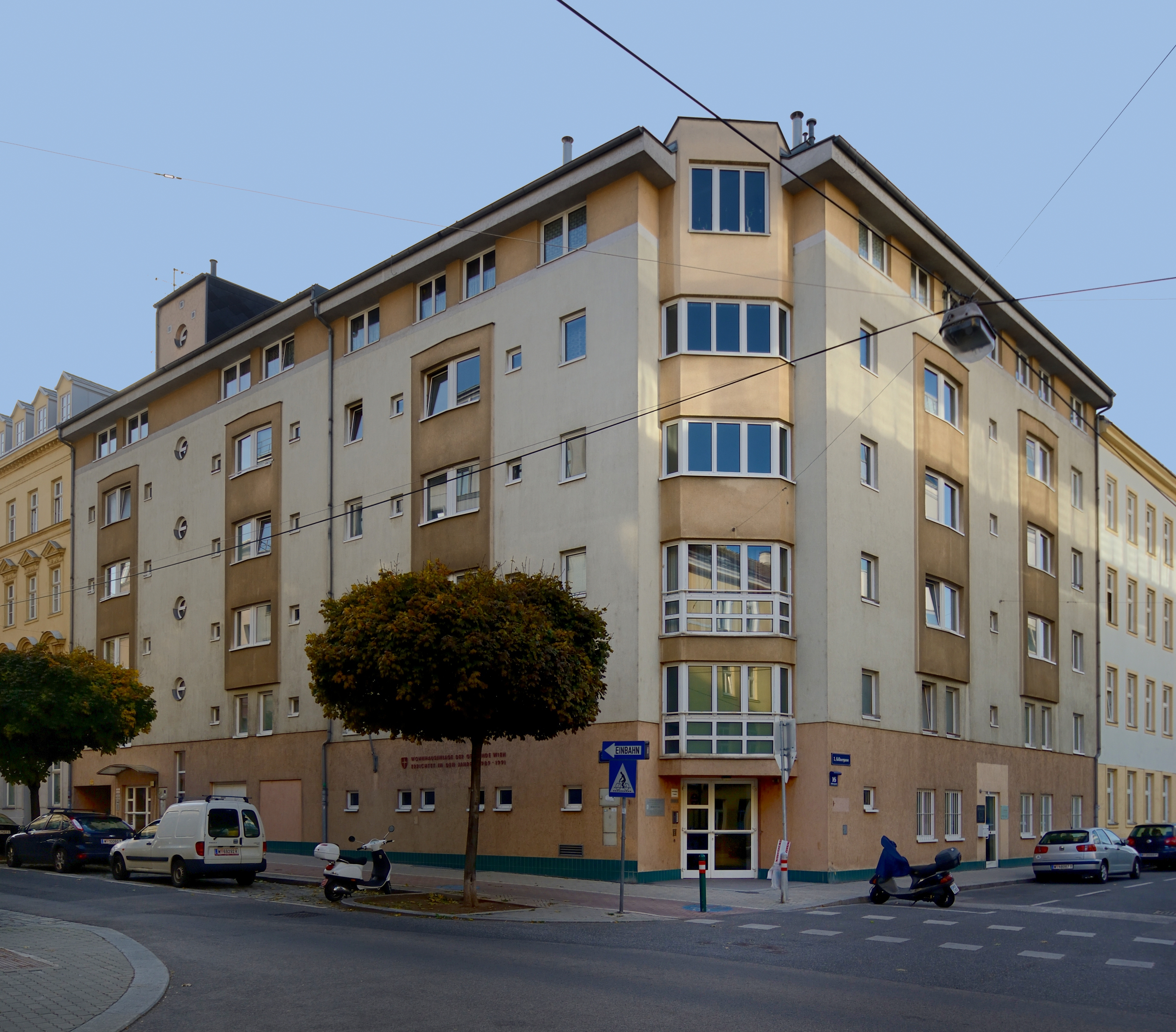 Community residential building Haidingergasse 24, 3rd district of Vienna